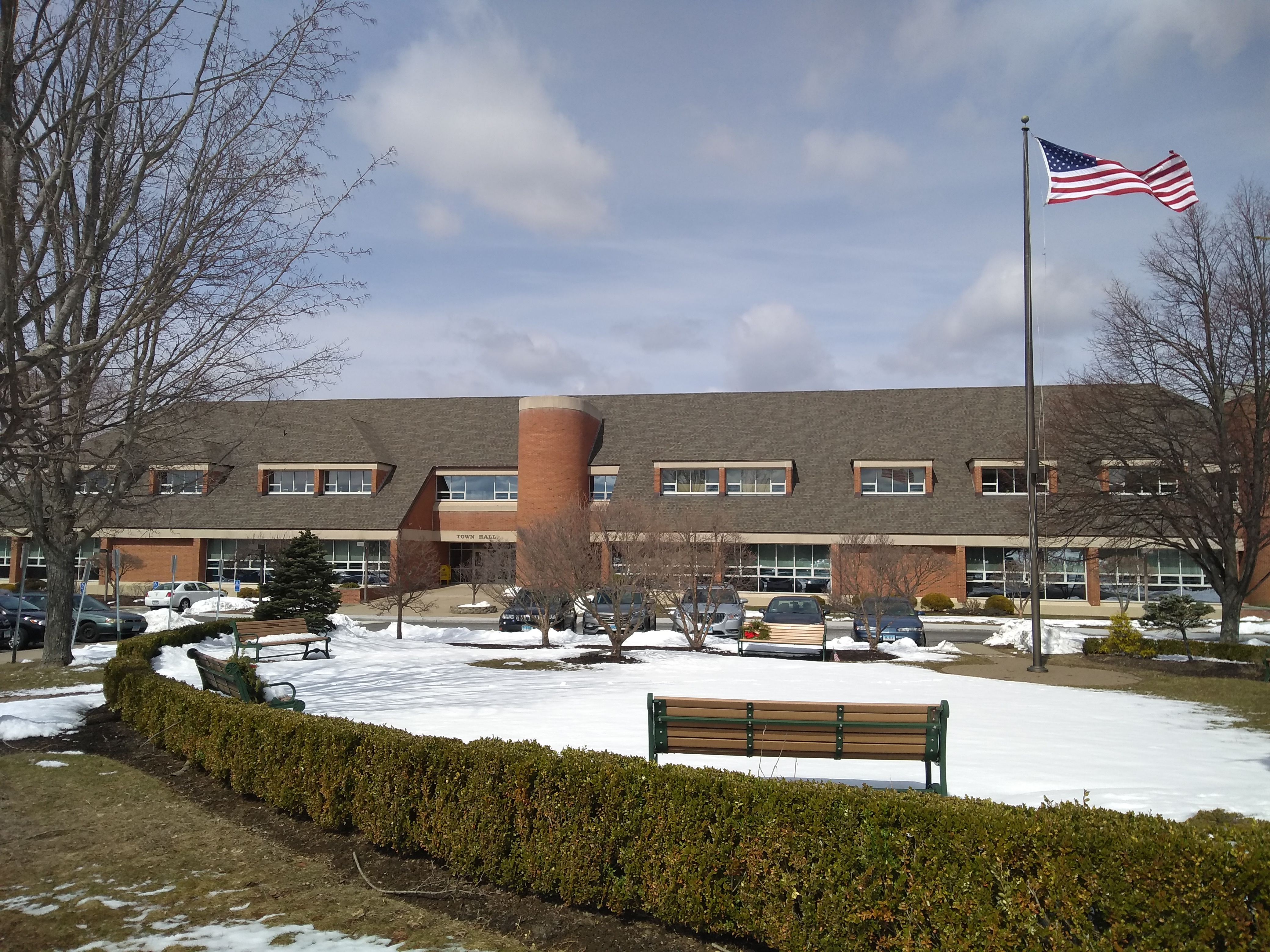 This is a photo of the Town Hall of Brookfield.